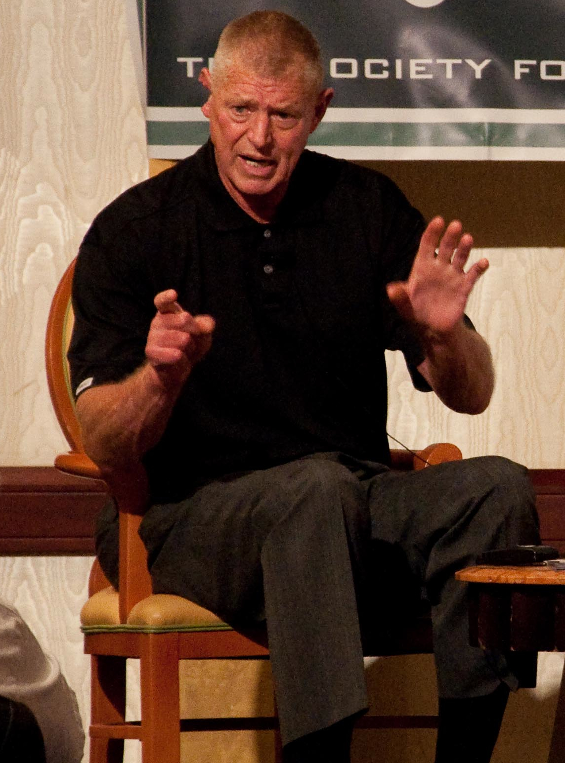 Former Washington Senators player Frank Howard at a SABR event in 2009. This file has been extracted from another file: Frank Howard, George Michael, Rick Dempsey 2009.jpg